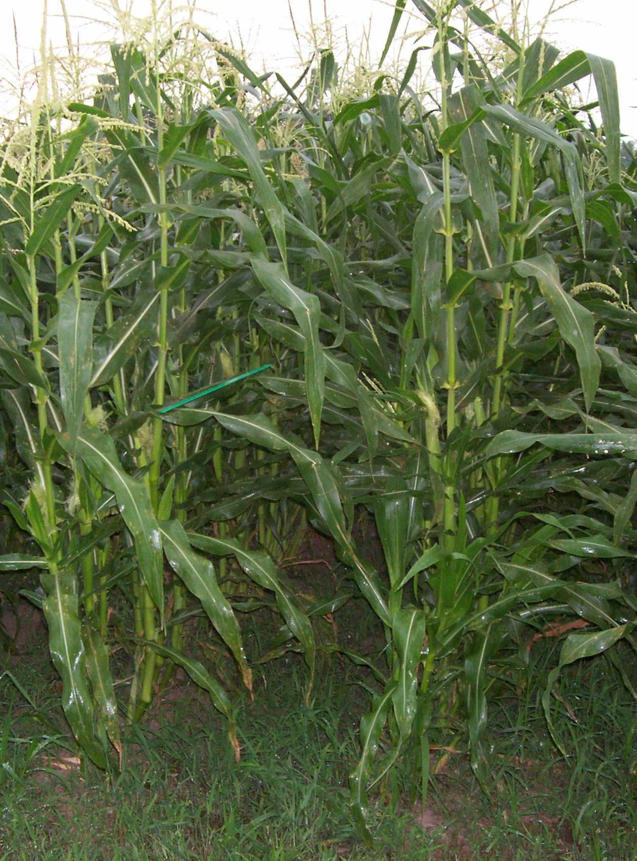 The same two rows of corn from the :Image:YoungSweetCorn.jpg image at maturity, 41 days later. A green one foot (30.48 cm) ruler is included for scale. I took this image myself on August 17, 2006. I cropped the image.